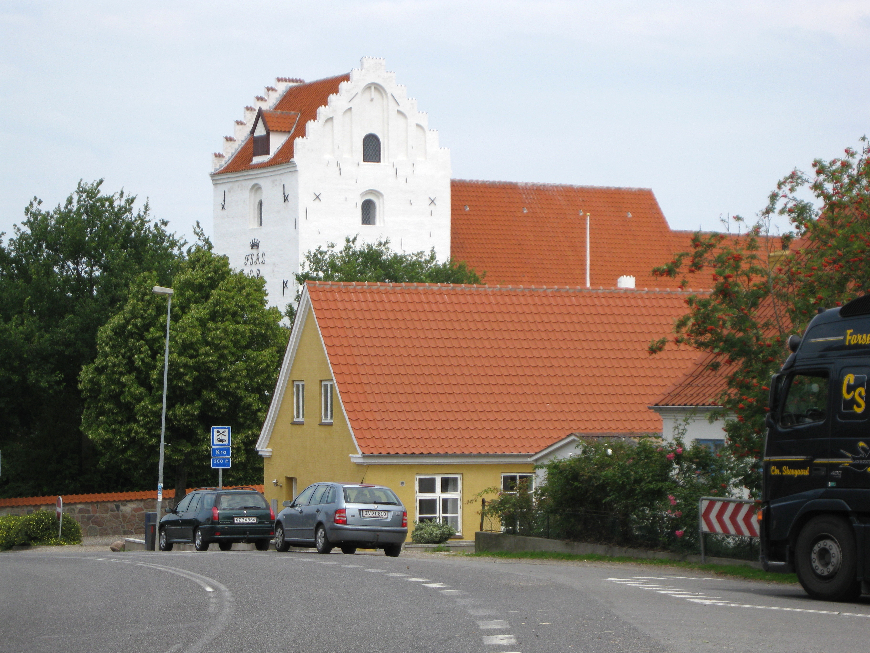 The church "Tullebølle Kirke" located in the Danish small town "Tullebølle" (in the centre of the island Langeland).